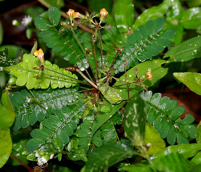 Biophytum reinwardtii (Synonyms: Oxalis reinwardtii) - Reinwardt's Tree Plant • Kannada: Horamuchhaka • Marathi: मोठी लाजवंती Mothi lajwanti • Sanskrit: लज्जालु Lajjalu- in Goa, India.